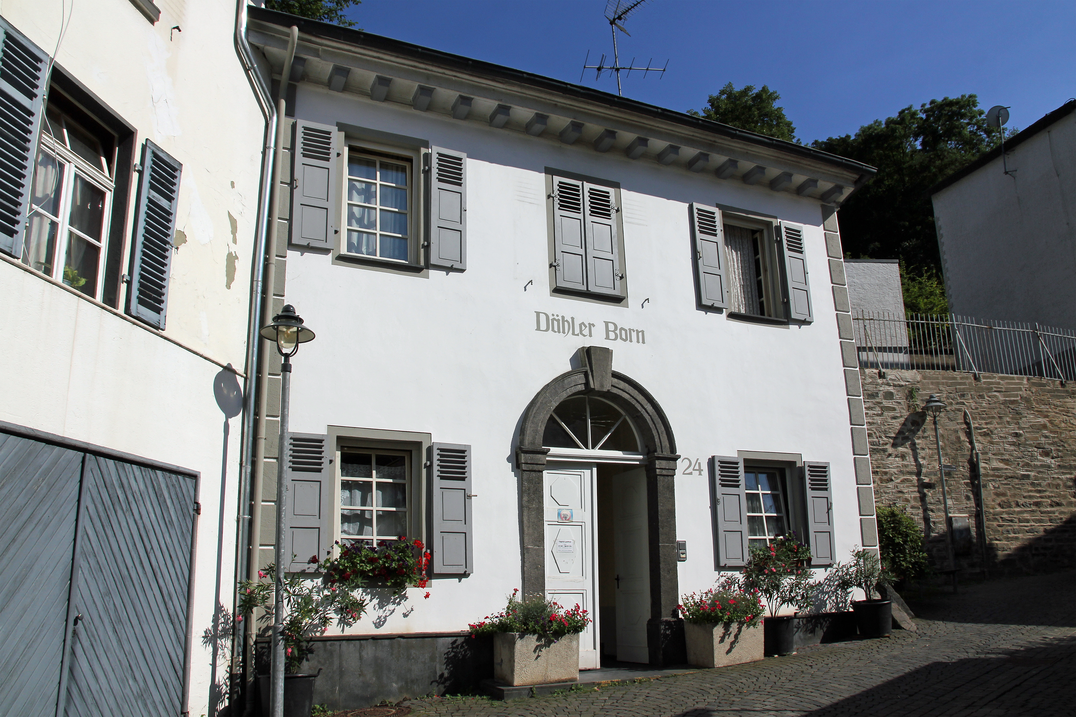 Dähler Born (mineral water spring) in Koblenz